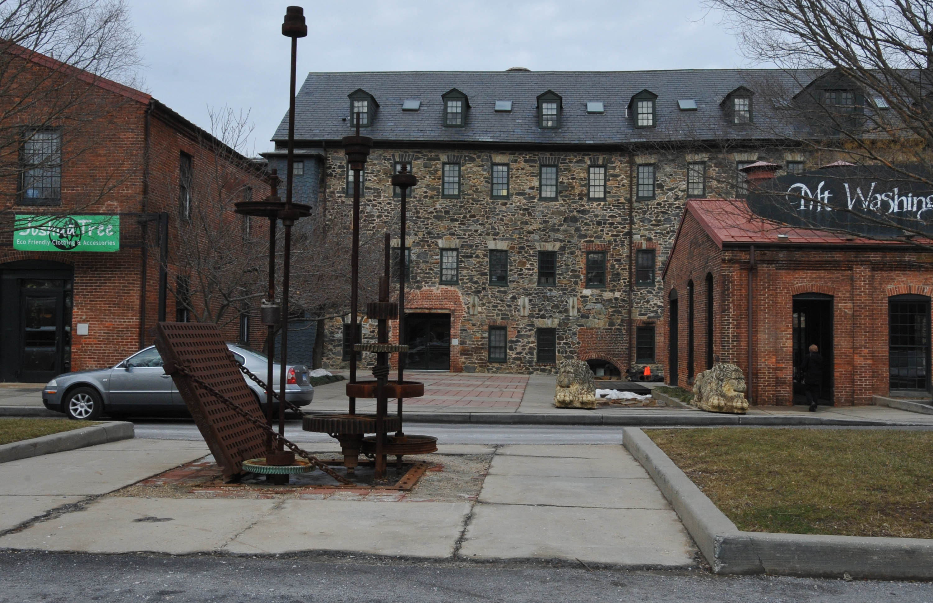 MOUNT WASHINGTON MILL IS AN OLD TEXTILE MILL WHICH HAS BEEN RECYCLED TASTEFULLY INTO SHOPS, A MARKET,AND RESTAURANTS